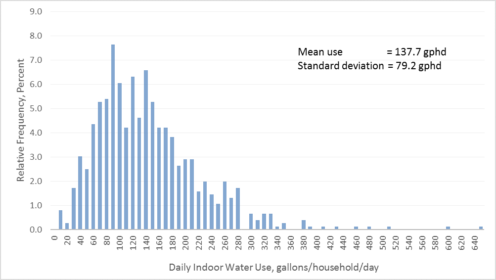 Histogram of daily household water use in the U.S.